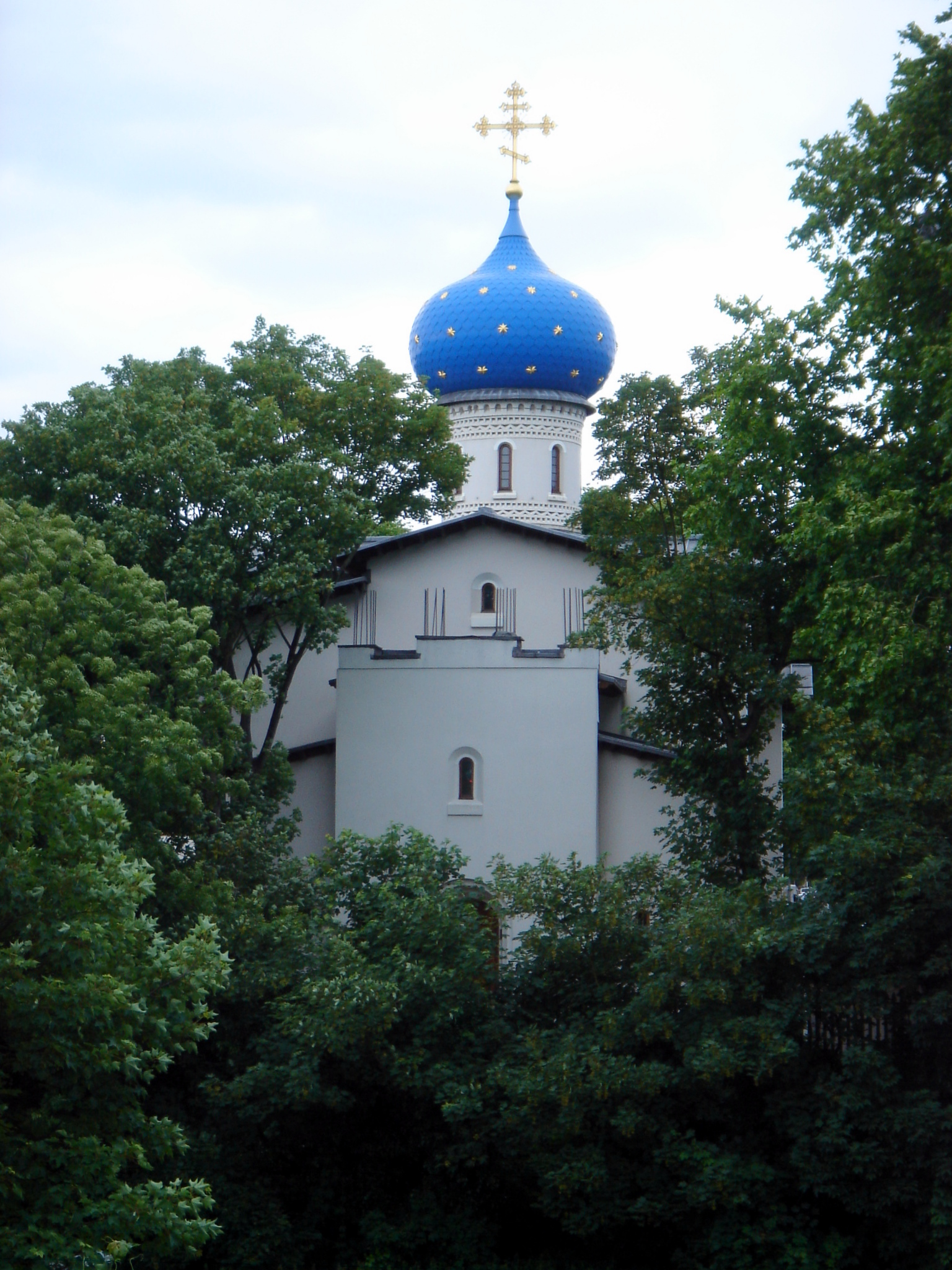 The West façade of the cathedral of the Dormition of the Most Holy Mother of God and Holy Royal Martyrs, London